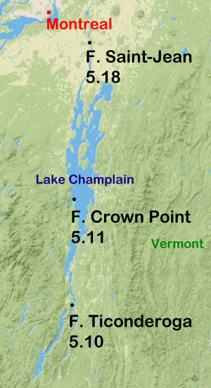 Map showing the location of Fort Ticonderoga, Crown Point, Saint-Jean, and Montreal.